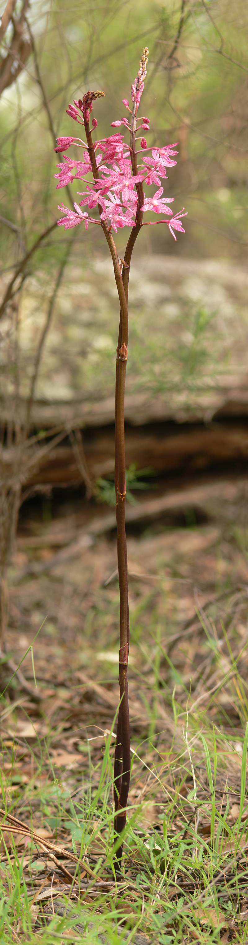 Dipodium punctatum - Hyacinth Orchid. taken in south-eastern australia